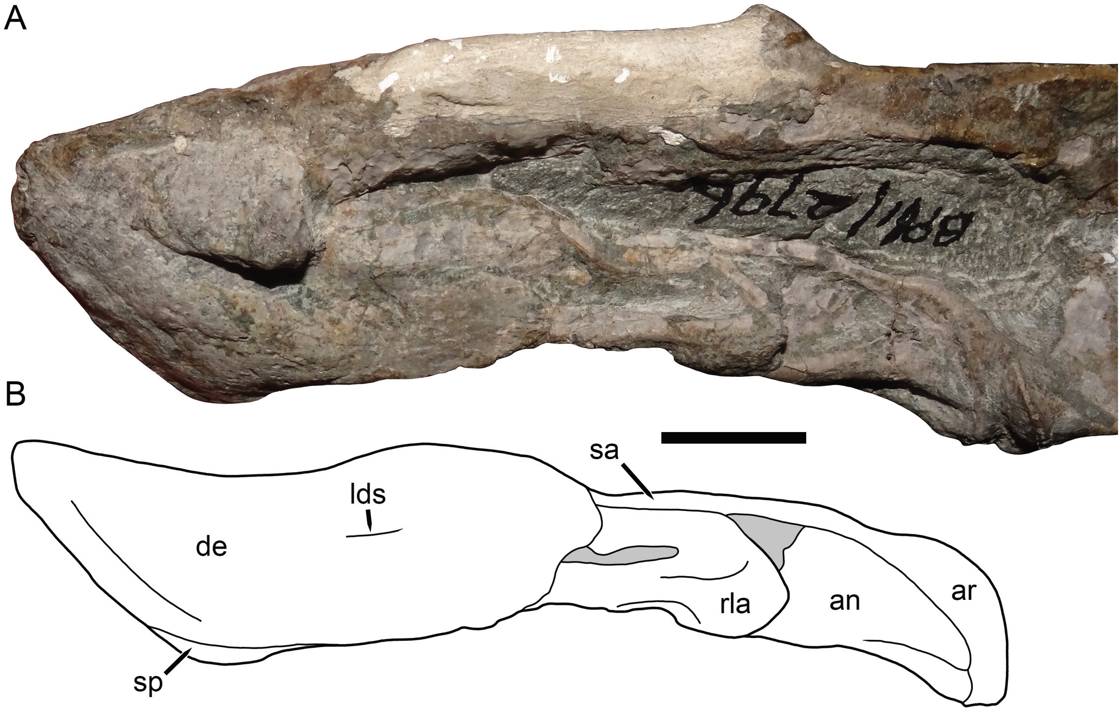 Holotype of Thliptosaurus imperforatus (BP/1/2796) in left lateral view; detail illustrating mandibular morphology. A, Photograph; B, interpretive drawing (grey indicates matrix). an, angular; ar, articular; de, dentary; lds, lateral dentary shelf; rla, reflected lamina of angular; sa, surangular; sp, splenial. Scale bar equals 1 cm.